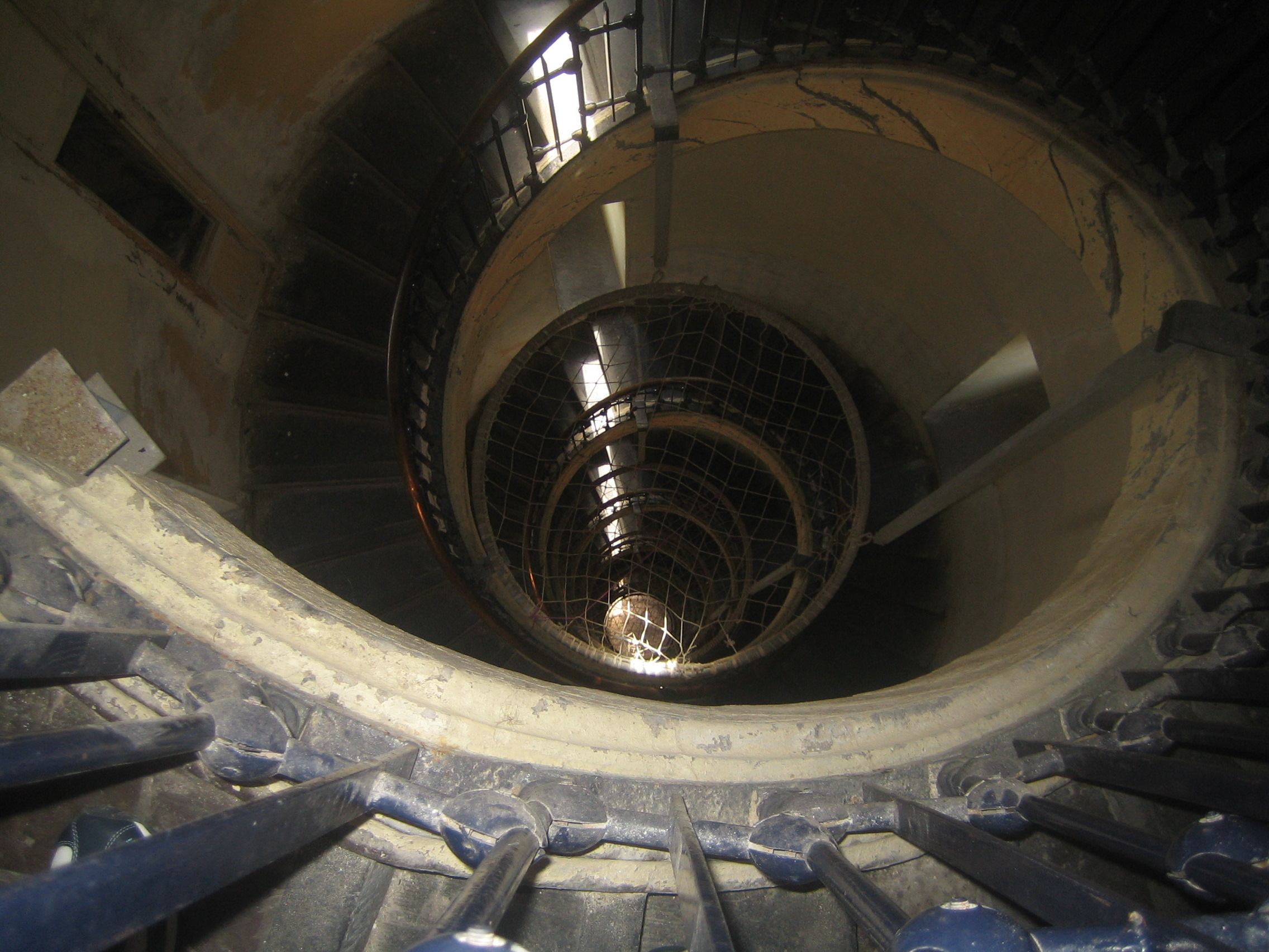 Staircase of Calais Lighthouse, seen from above.